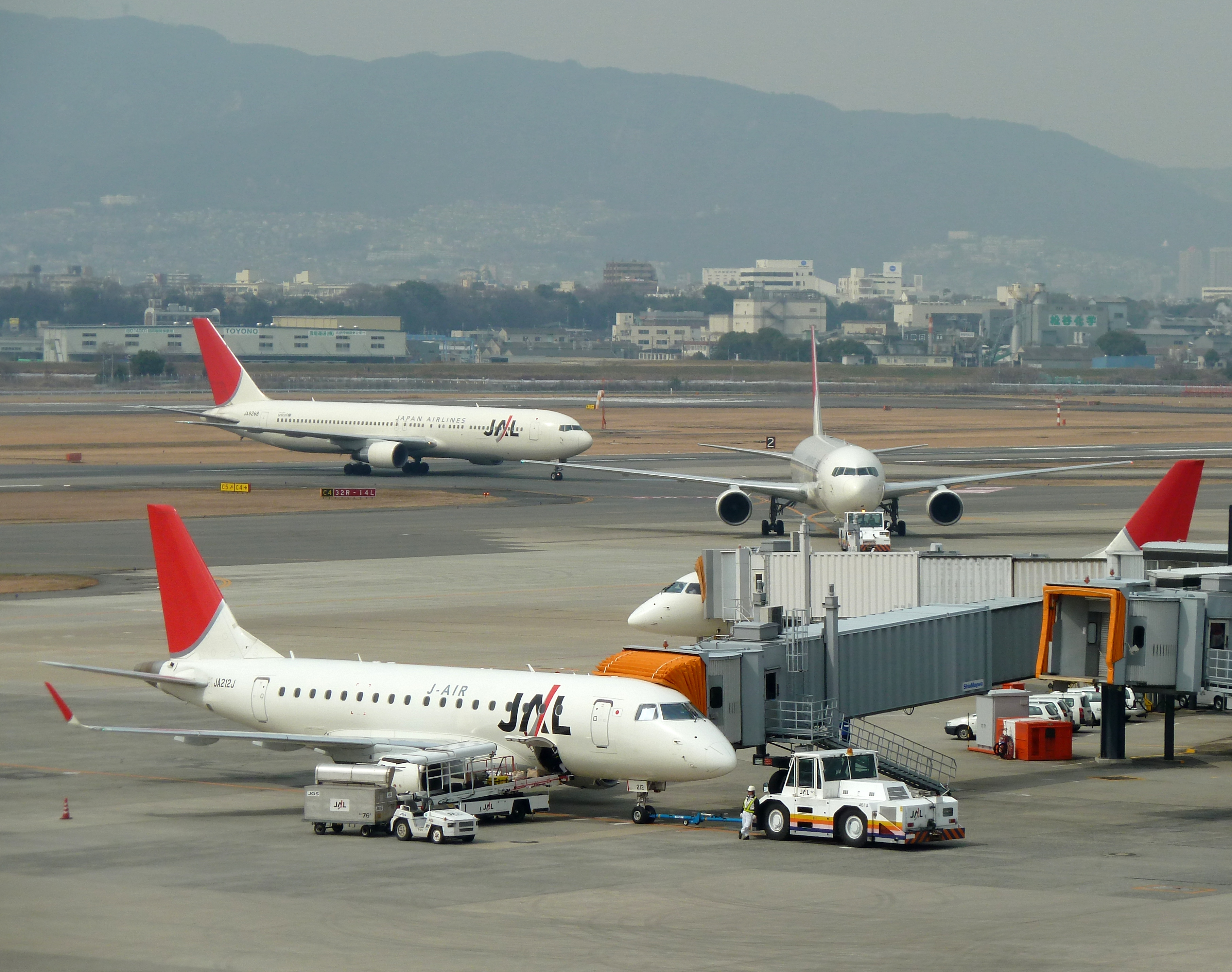 JAL Boeing 767-300 (taxing) and Embraer 170 at Osaka Itami Airport